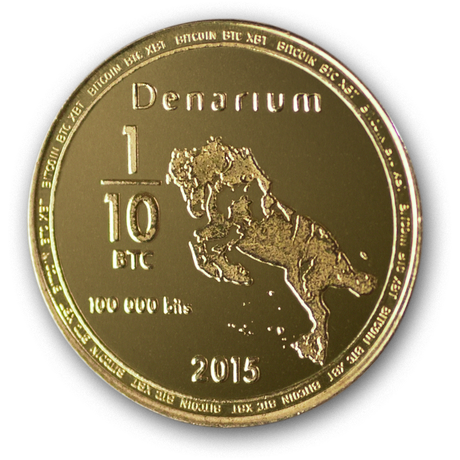 Denarium Physical Bitcoin